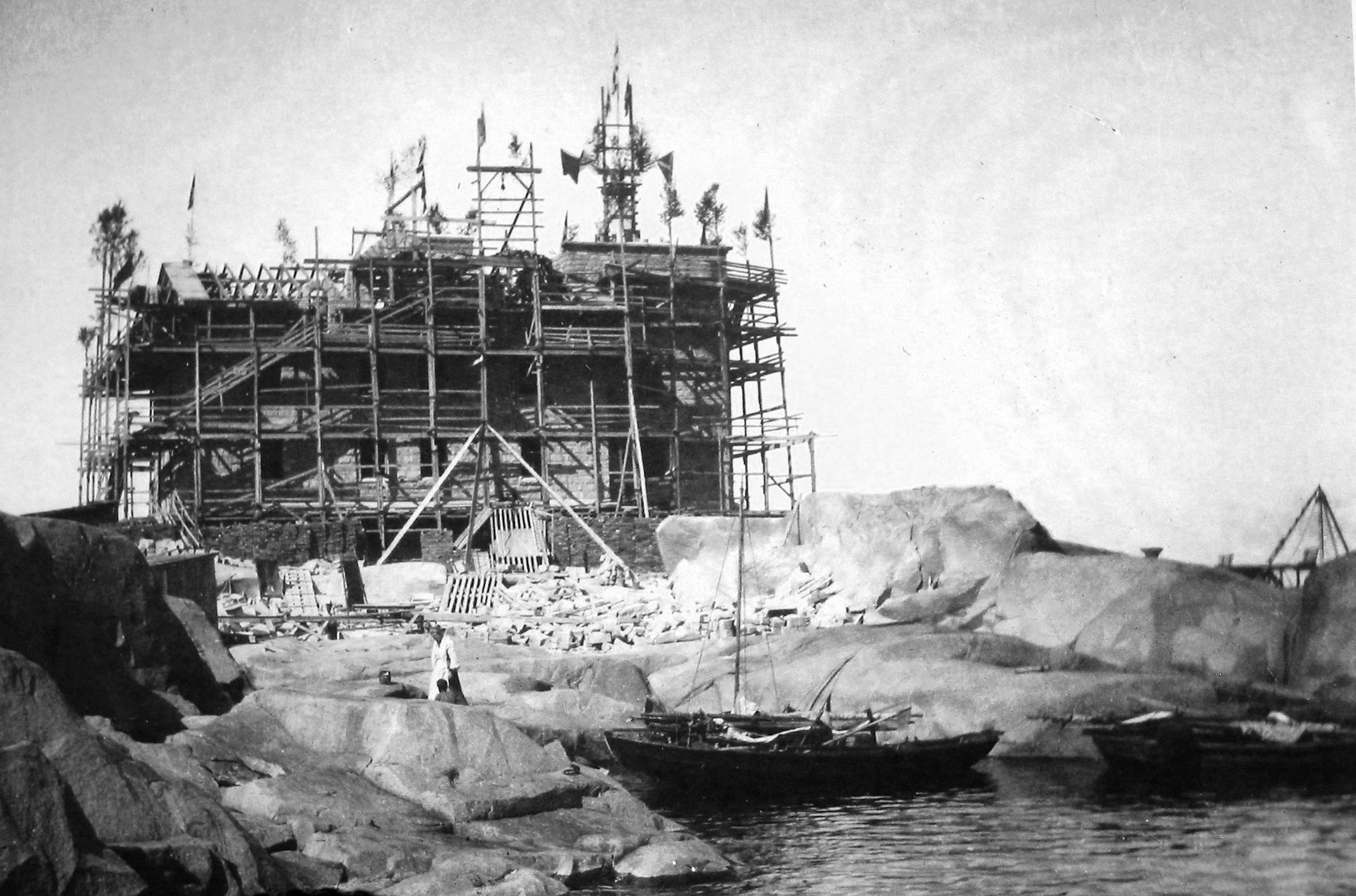 Bengtskär Lighthouse Hanko Finland